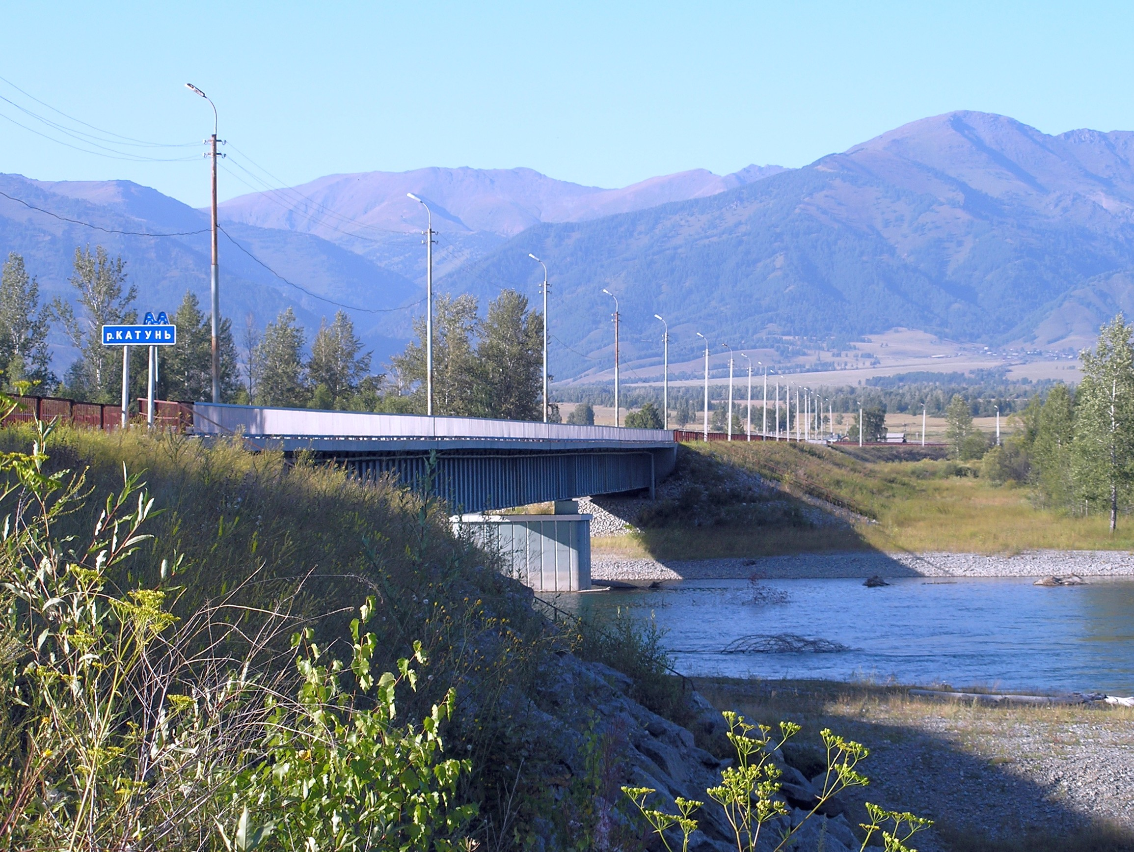 Bridge near Verkhniy Uymon